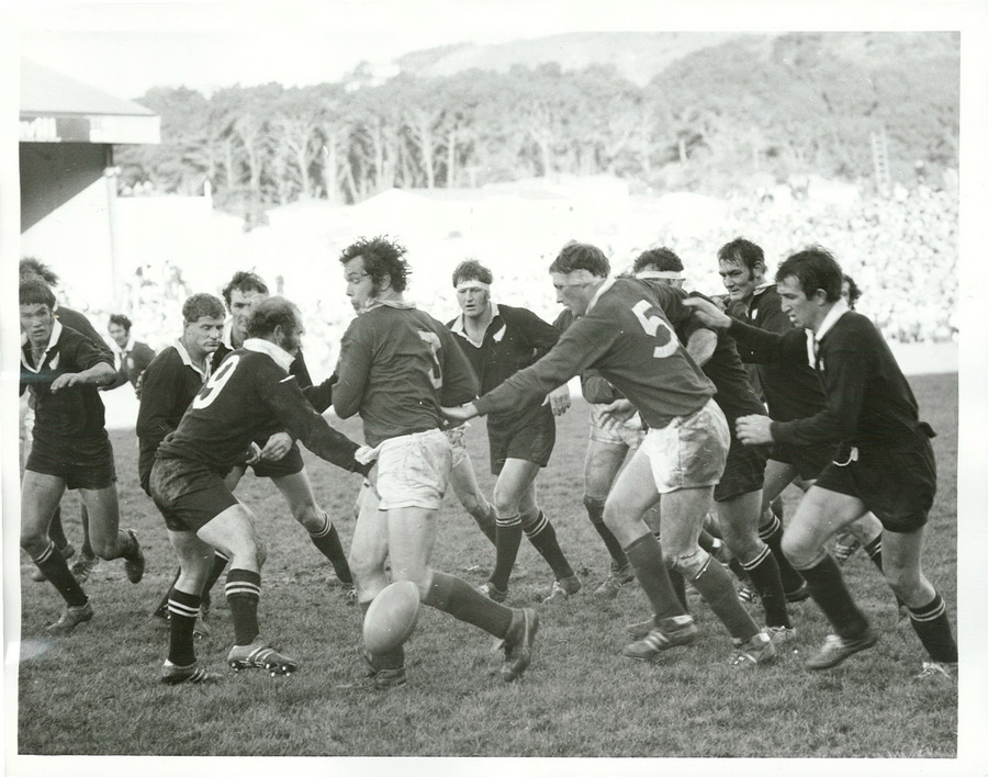 Images from NZ Archives Flickr albums Images uploaded in collaboration between WMUK and the University of Edinburgh